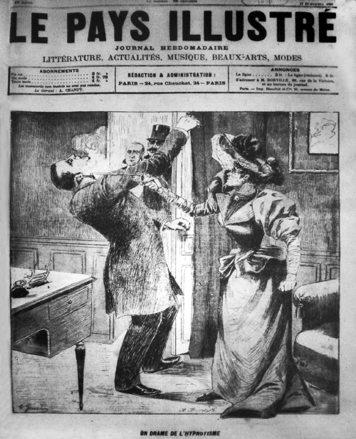 First page of Paris newspaper "Le Pays Illustre", 1893; paranoid patient's attempt to kill dr Tourette